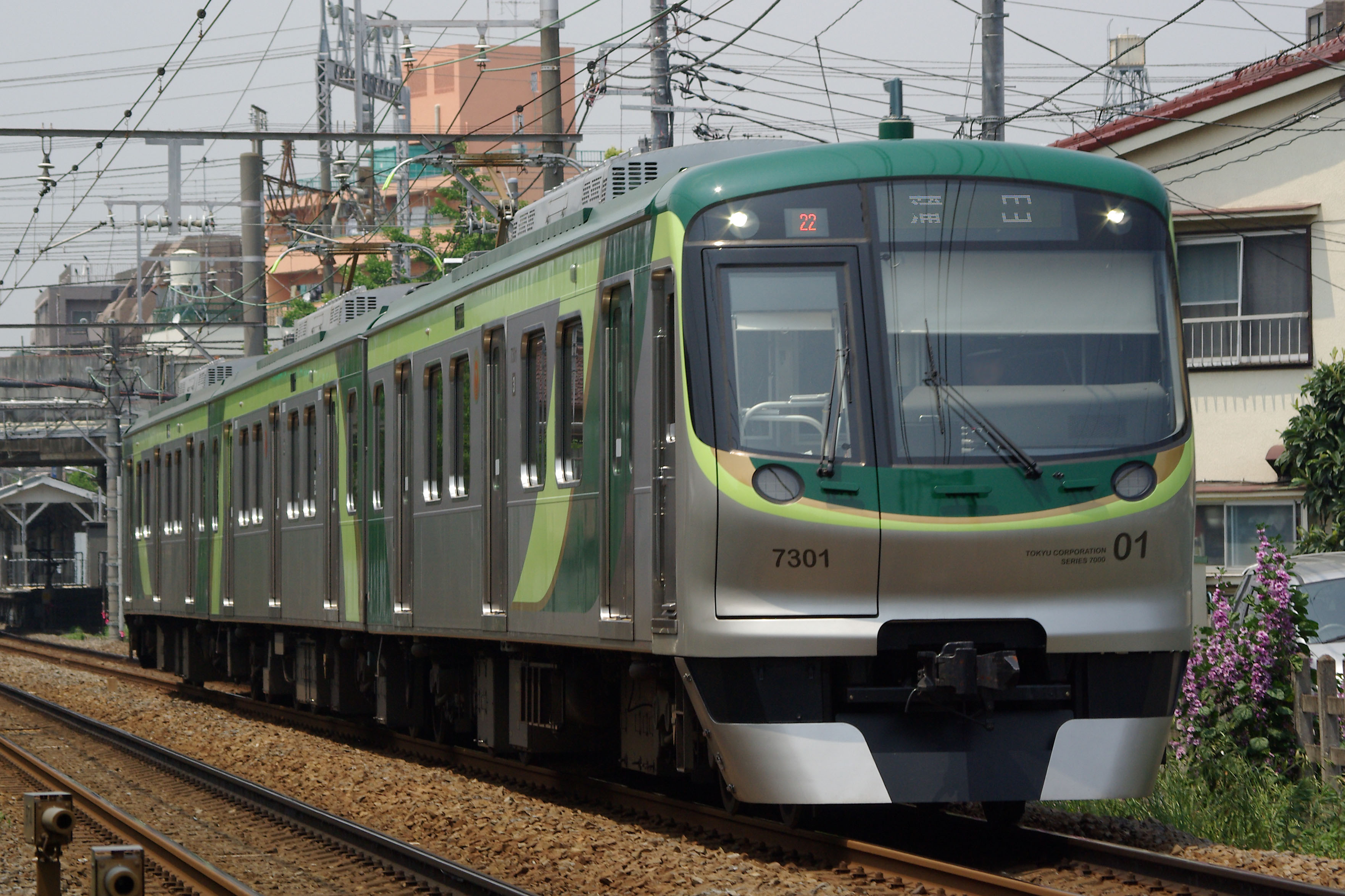 Tokyu 7000 series EMU set 7101 on the Tokyu Tamagawa Line